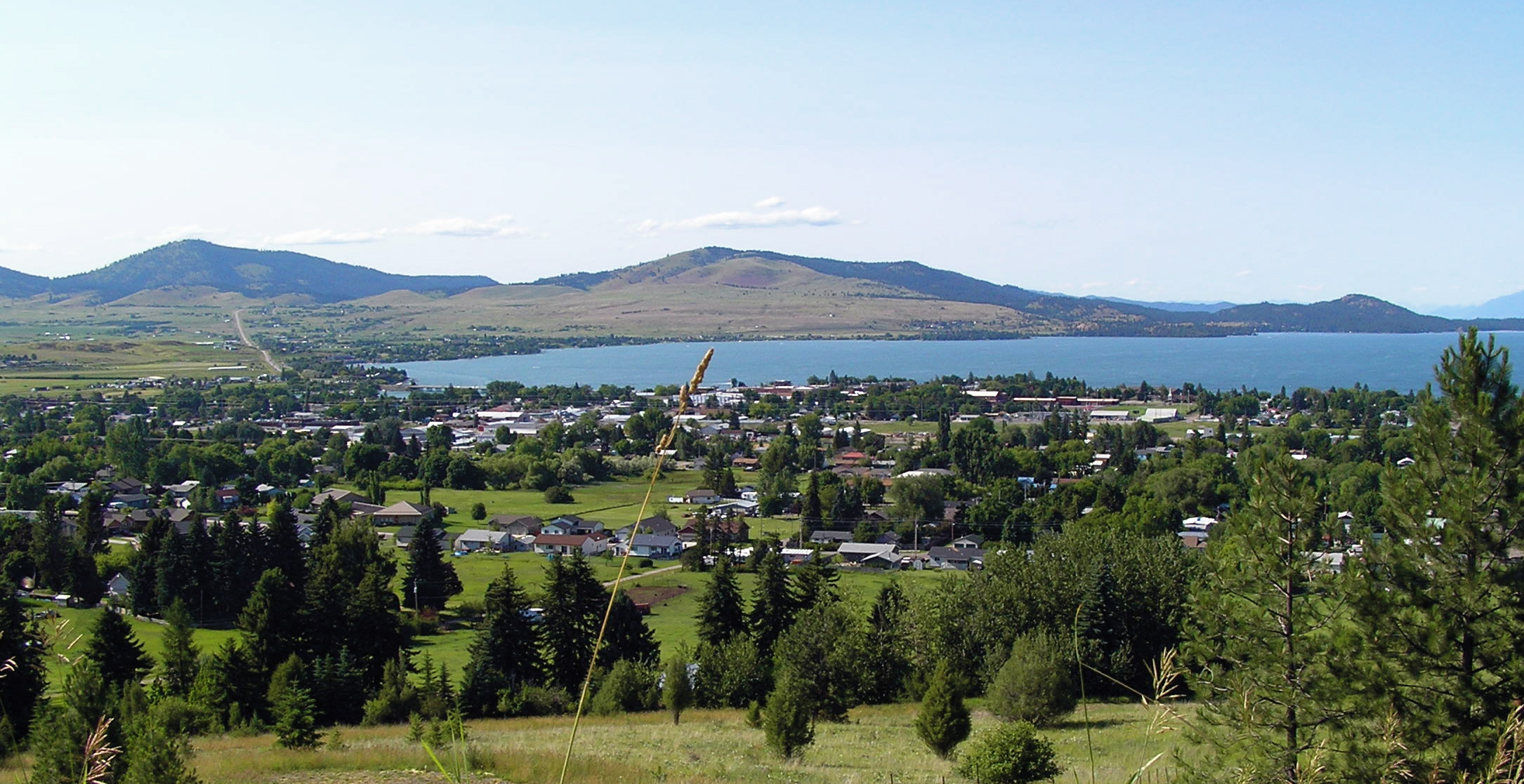 Polson and Flathead Lake viewed from the west, looking northeast